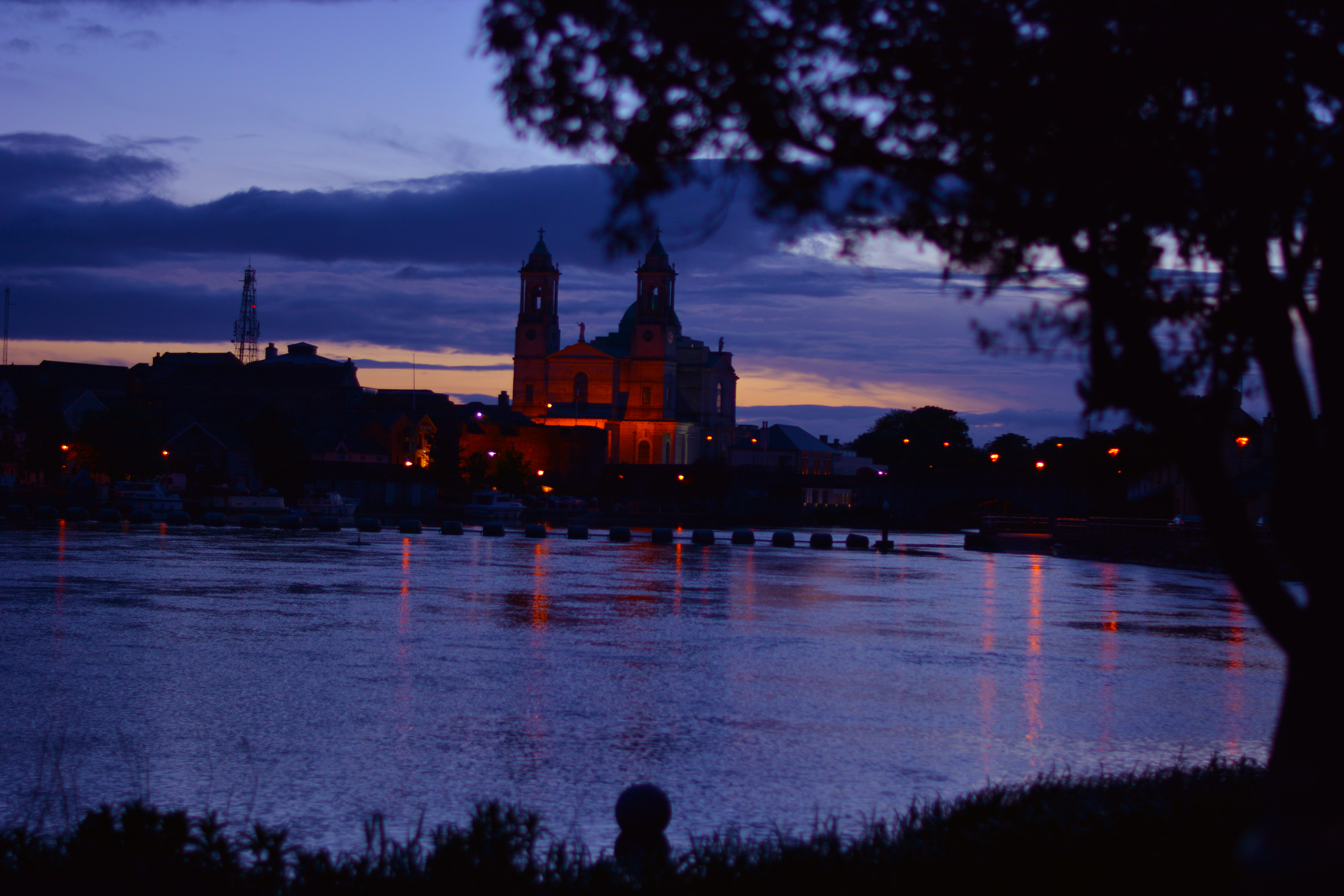 SS Peter and Paul's Church on the banks of river Shannon at twilight.